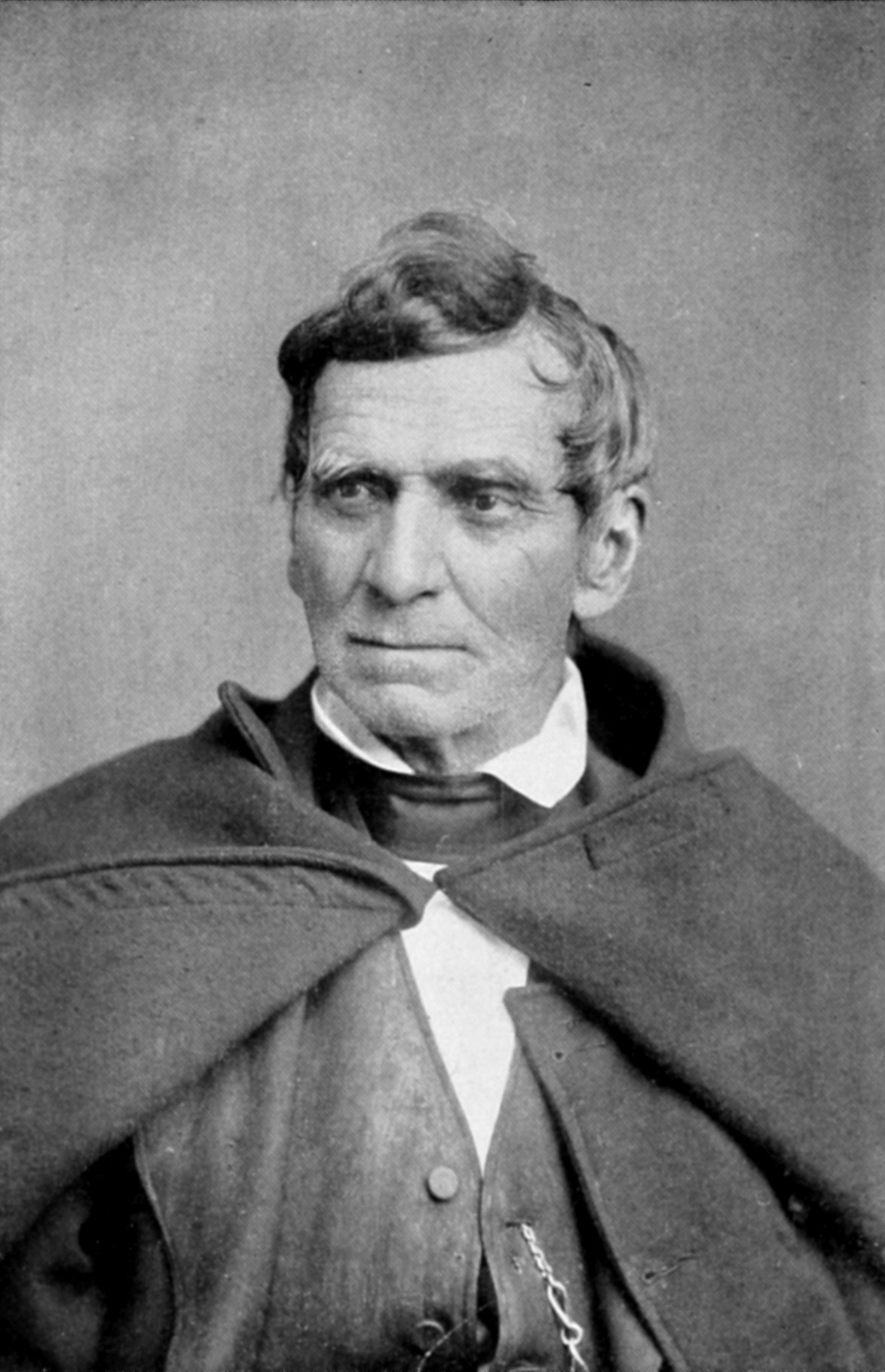 Lindsay Applegate portrait from the Centennial History of Oregon by Joseph Gaston, published 1912